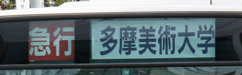 An example of information boards at buses (separated type of route number and destination)